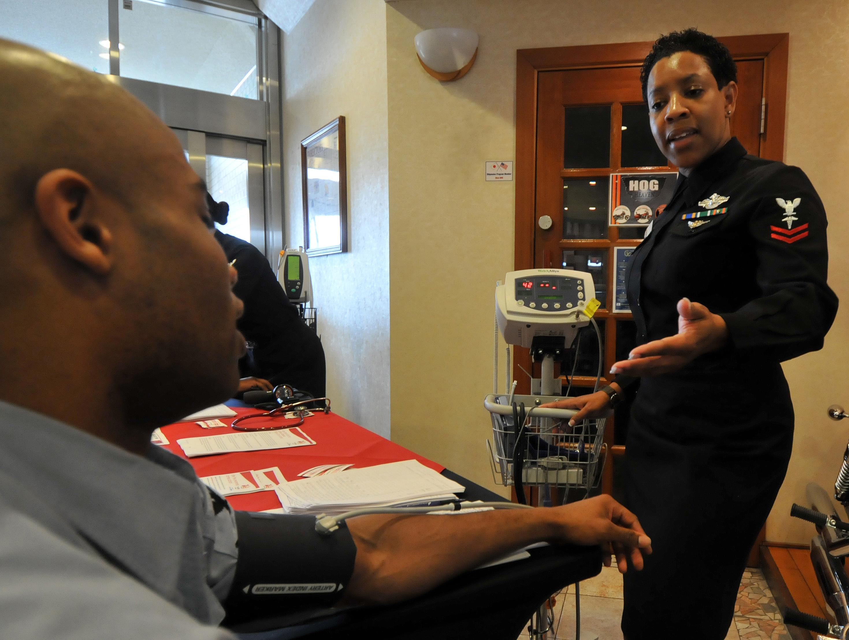 SASEBO, Japan (Feb. 5, 2009) Hospital Corpsman 2nd Class Genell Cody, Health Promotion coordinator at Fleet Activities Sasebo, from Augusta, Ga., checks a Sailor's blood pressure during a "Go Red for Women" heart disease awareness campaign. The campaign is a national movement founded by the American Heart Association to raise awareness and fight heart disease in women. (U.S. Navy photo by Mass Communication Specialist 2nd Class Joshua J. Wahl/Released)